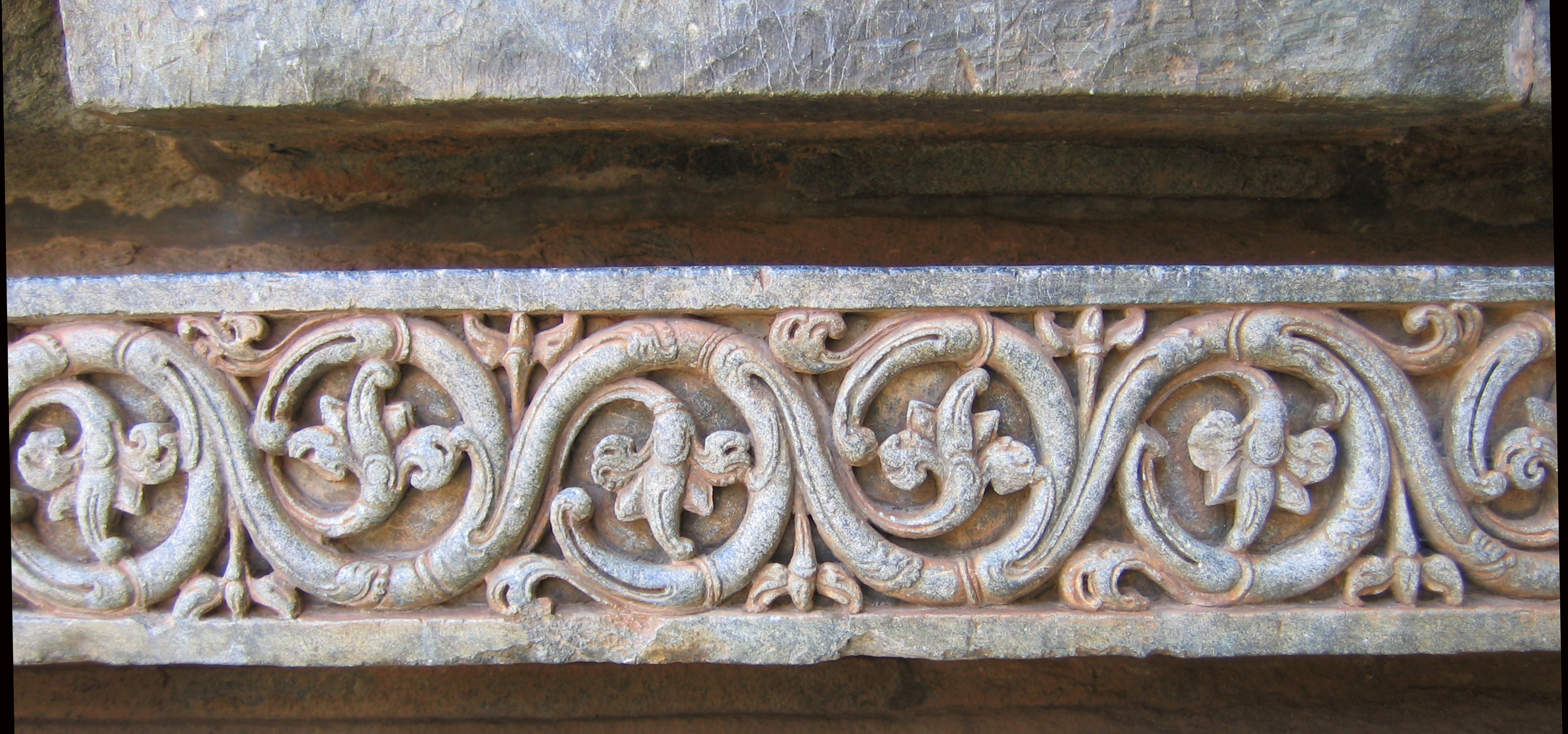 Halebidu Temple Wall Design